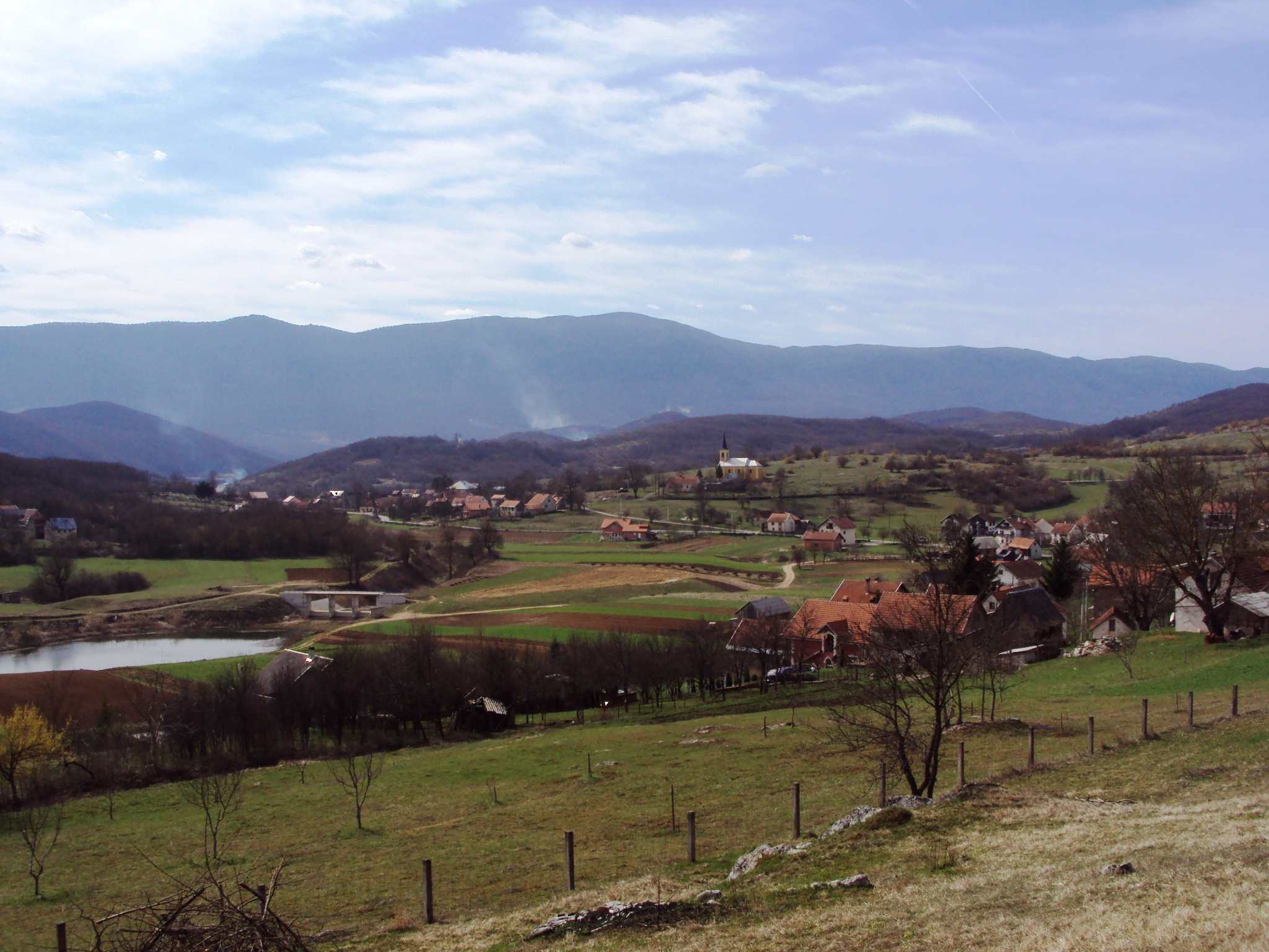 Village of Švica, Region of Lika, Croatia